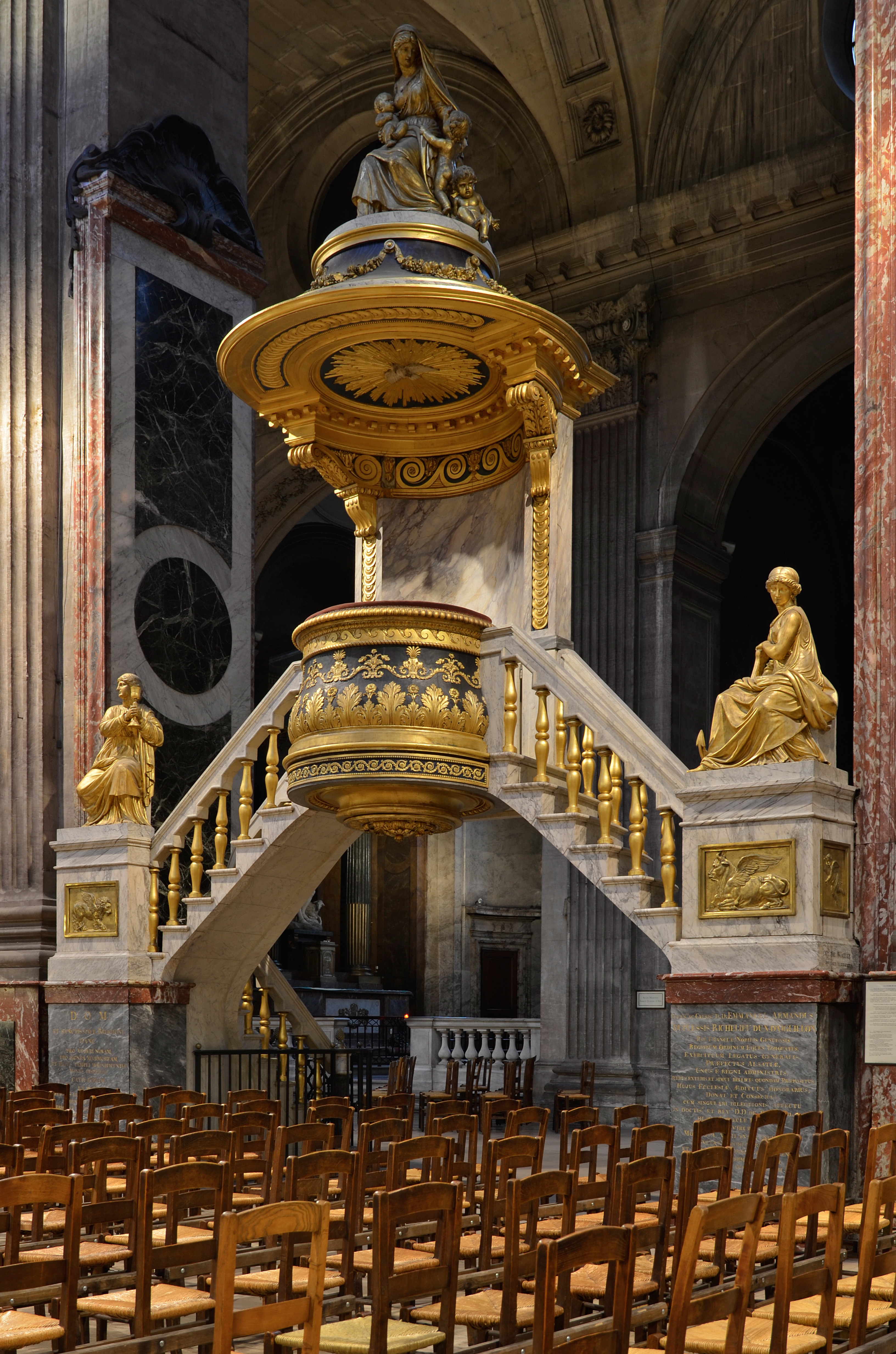 Pulpit of Saint-Sulpice church - Paris, France